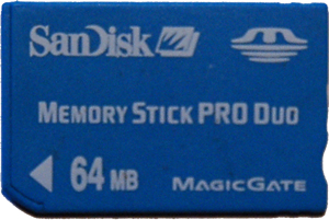 Memory Stick